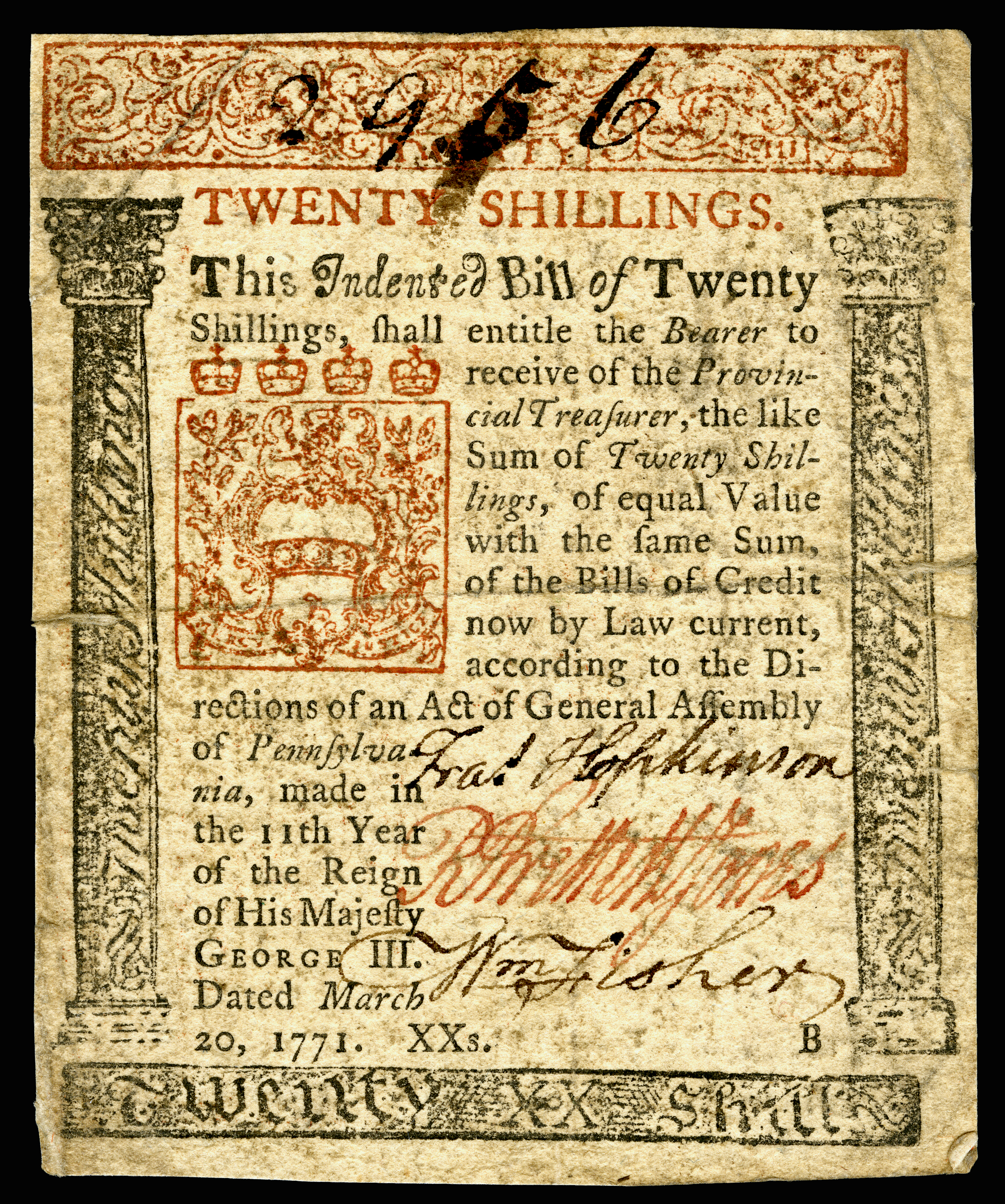 20s Colonial currency from the Province of Pennsylvania. Signed by Francis Hopkinson, Robert Strettell Jones, and William Fisher.(Friedberg Colonial ref# PA-149).